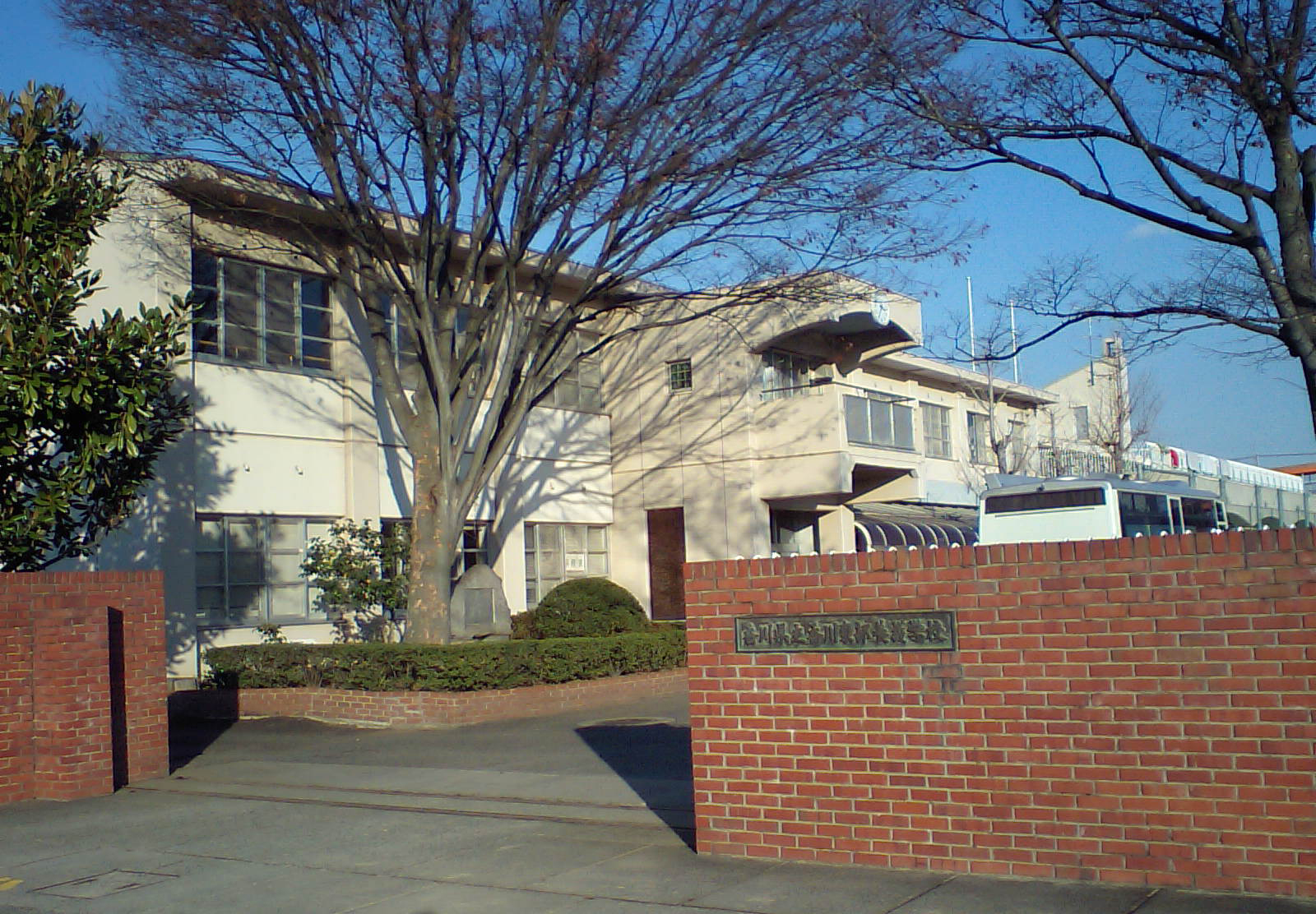 Kagawa prefectural Kagawa eastern school for special education